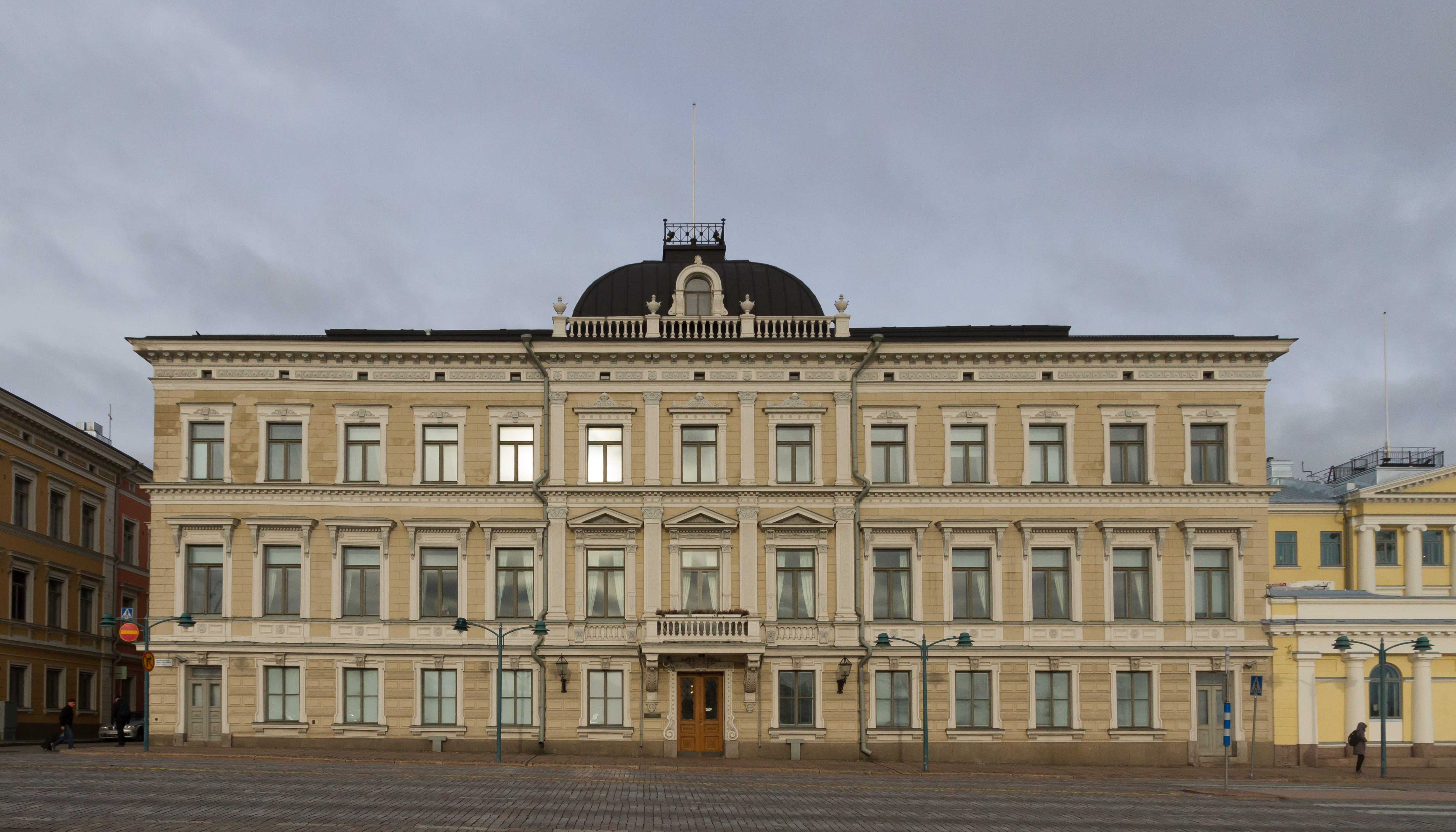 Helsinki